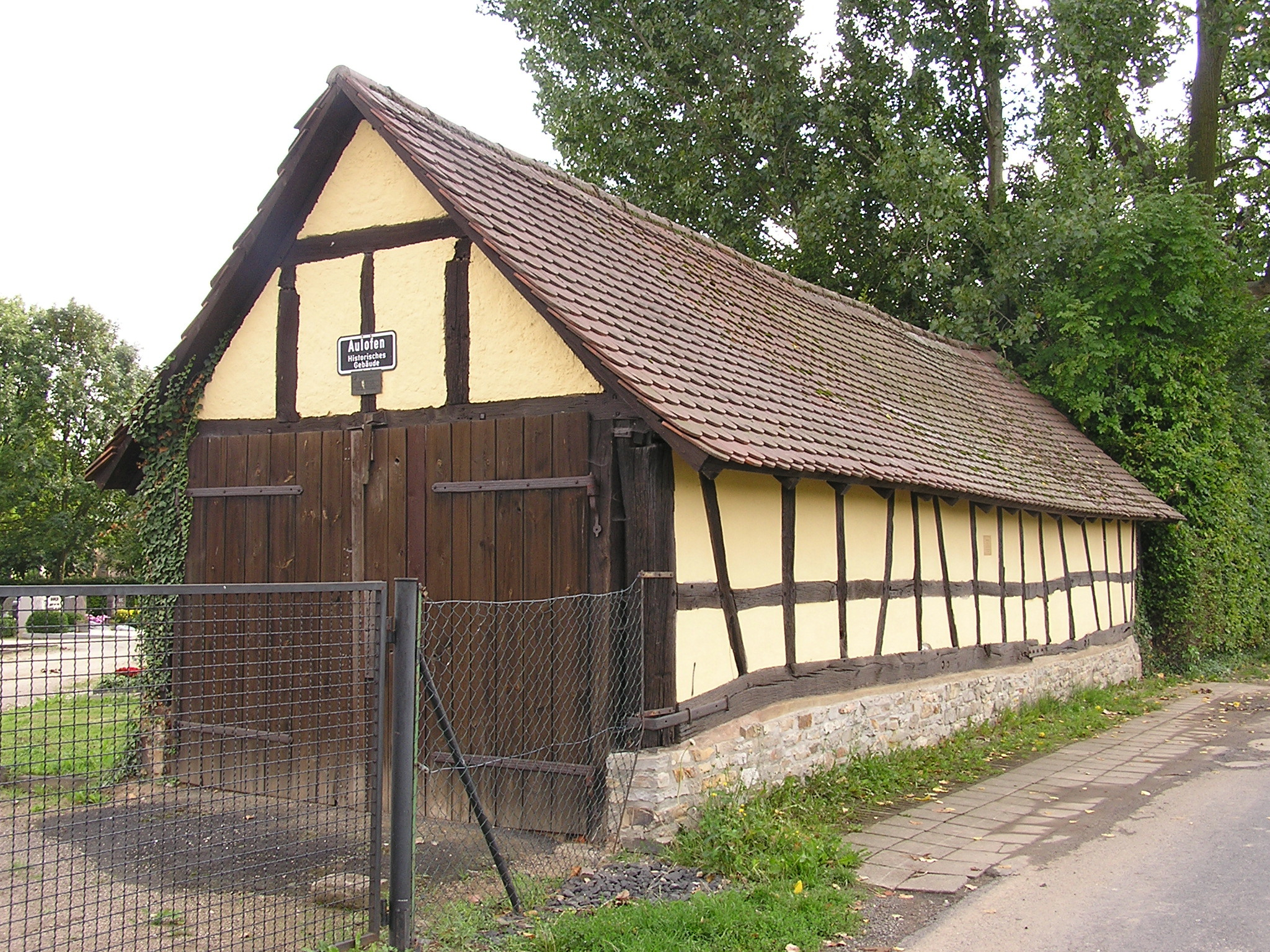 The “Aulofen” in Friedrichsdorf-Seulberg. It was built in the core of the village, but today ist stands at the cemetery.